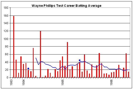 Test batting chart of Wayne B. Phillips. Red columns are the runs in the innings. Blue dots indicate not outs. Blue line is average in the last ten innings. Thanks to Raven4x4x for providing the template.